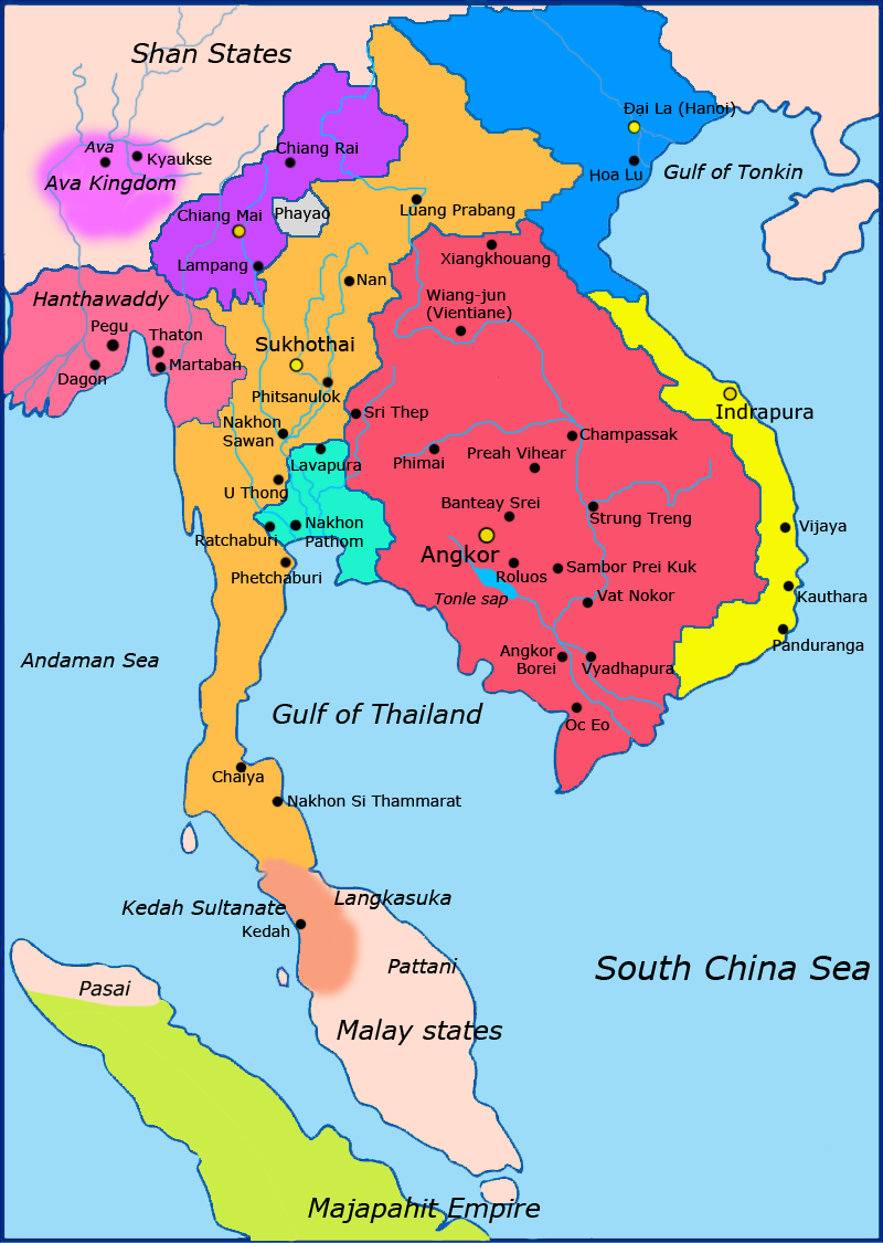 Map of Southeast Asia circa 1300 CE, showing Khmer Empire in red, Lavo kingdom/Dvaravati in light blue, Sukhothai empire in orange, Champa in yellow, Dai Viet in blue, Kingdom of Lanna in purple and surrounding states.